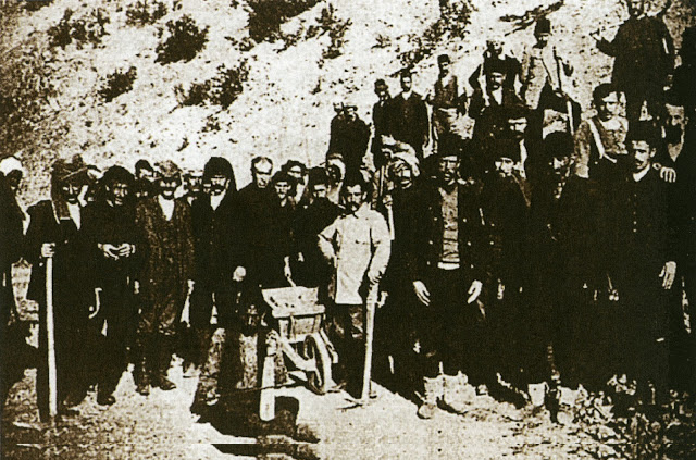 Labour Battalions (Amele Taburu) instituted by the Ottoman Empire (Young Turks) in World War I from Greeks deported from the western and northern coasts of Anatolia into the interior. Ca. 250,000 Greeks lost their lives in the atrocious living and working conditions there.